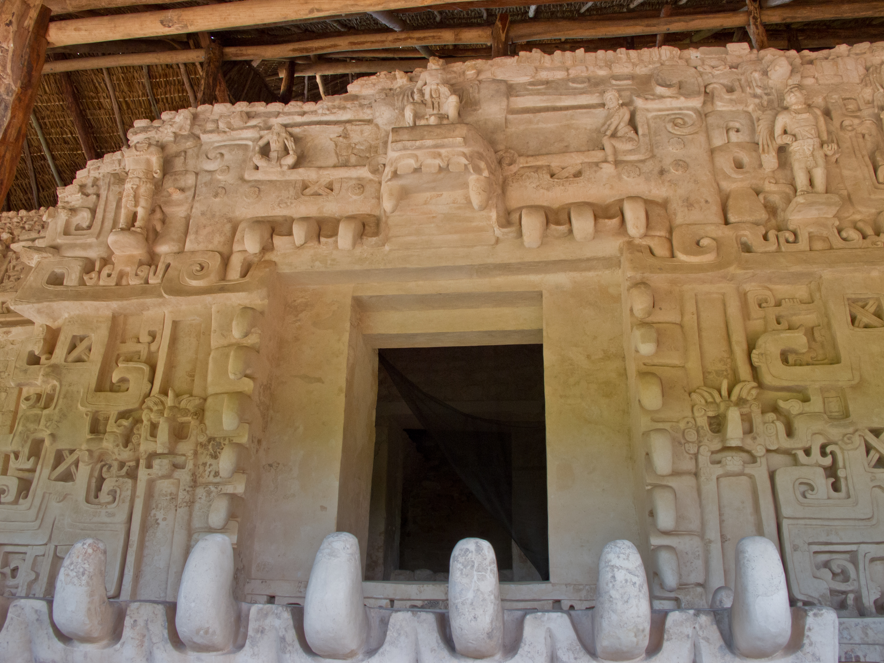 Ek' balam, Yucatán, Mexico.